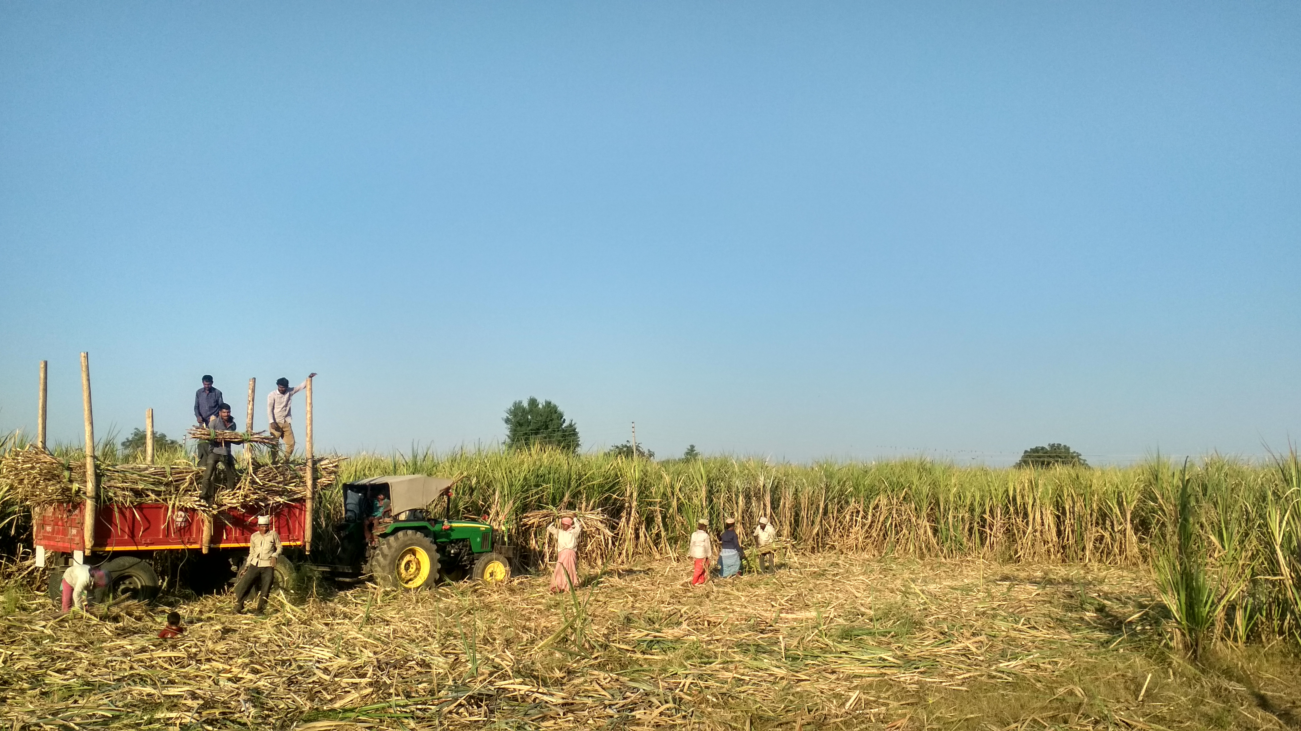 This photo has been taken in the country: India